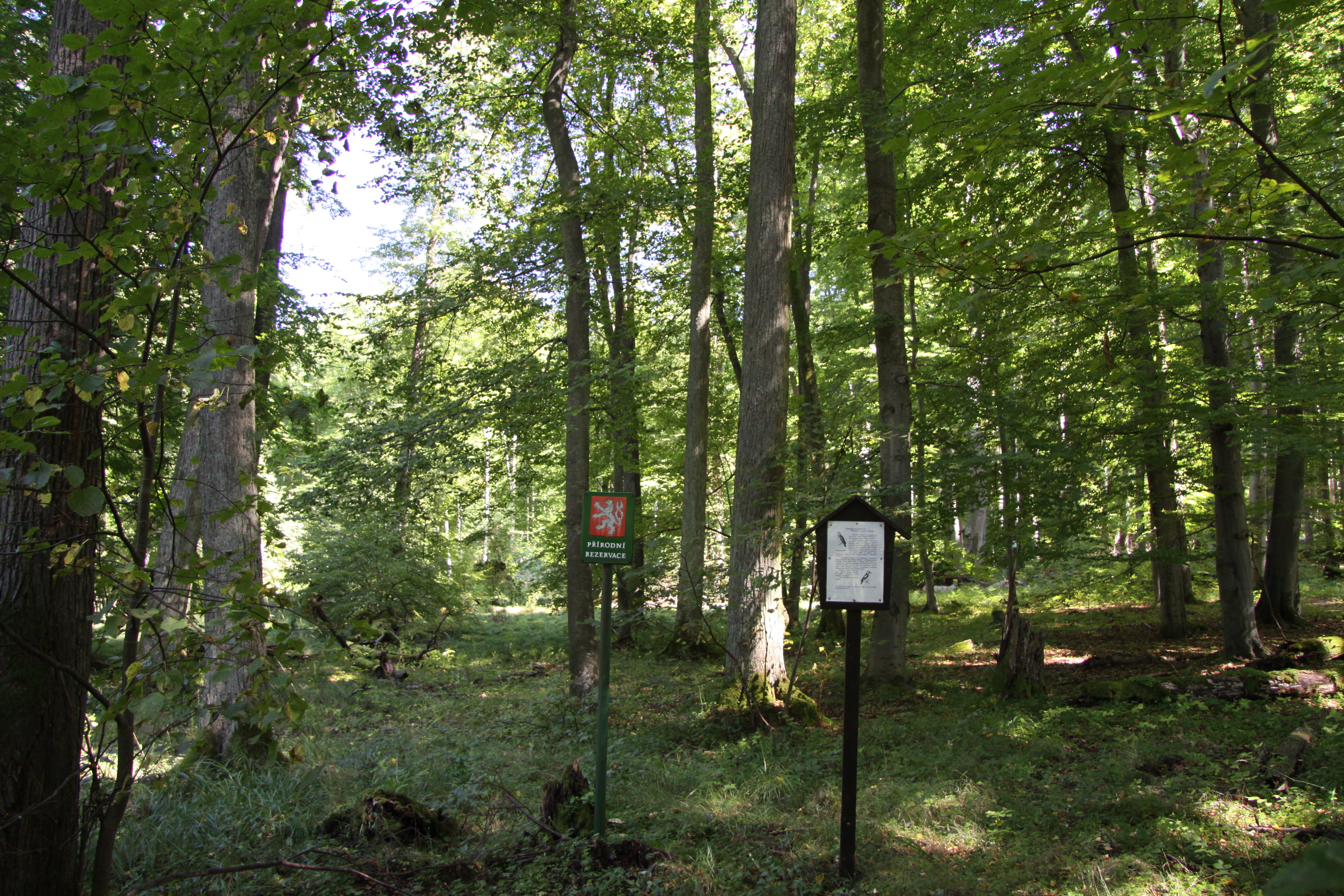 Natural reservation called "Čertova hora u Vráže", Písek District, Czech Republic - Google Maps - Google Earth